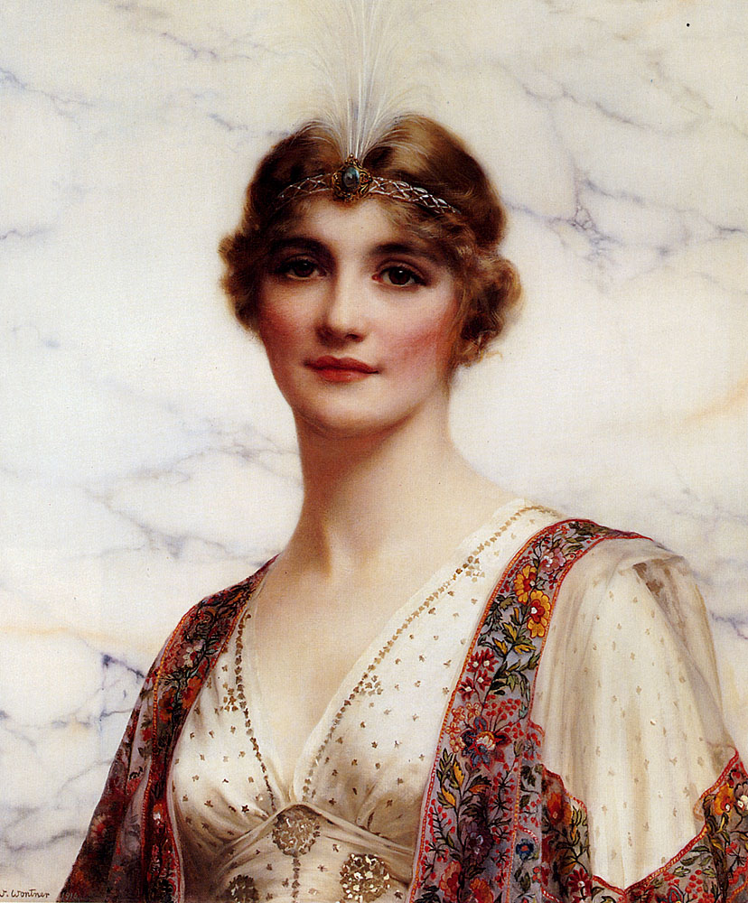 "The Fair Persian", oil on canvas, 63.5 x 53.4 cm